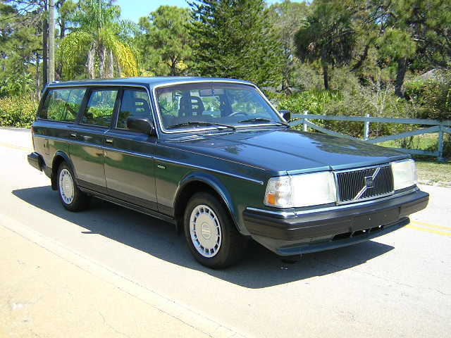 Title: Volvo_Cars_logo.png Date: March 18, 2004 Photographer: Nicholas Wourms Source: Photographed myself.